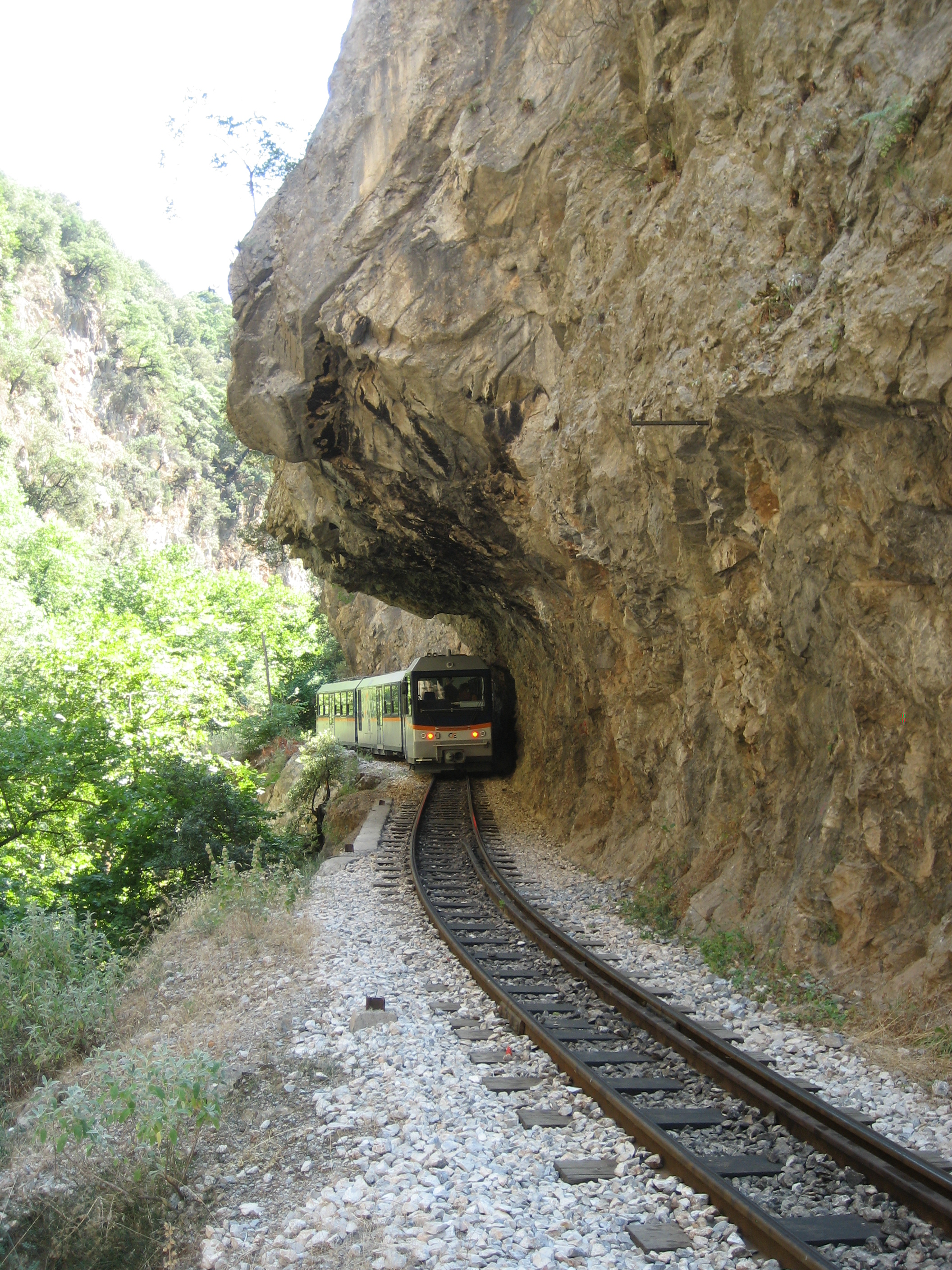 Diakofto-Kalavrita railway, Greece